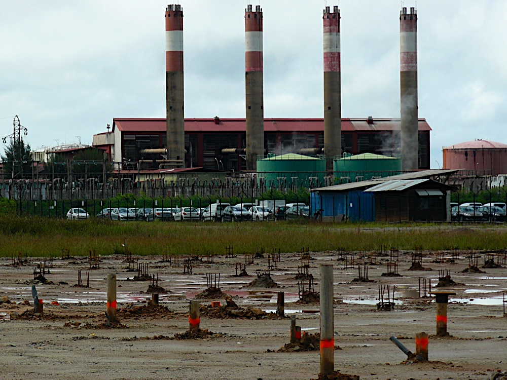 EDF power plant near Dégrad-Des-Cannes port